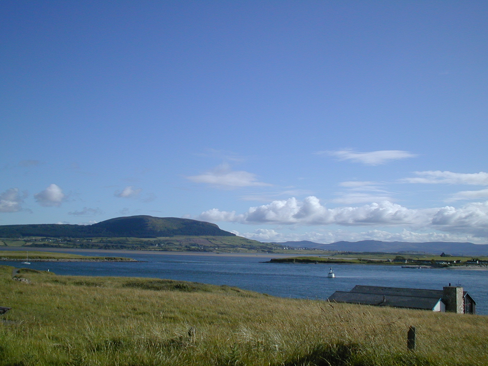 Landscape from Rosses Point, Sligo, Ireland